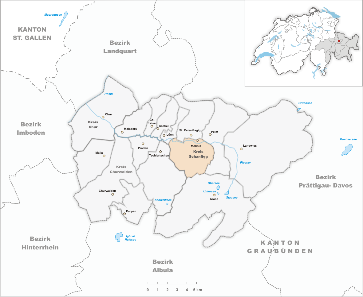 Municipality Molinis